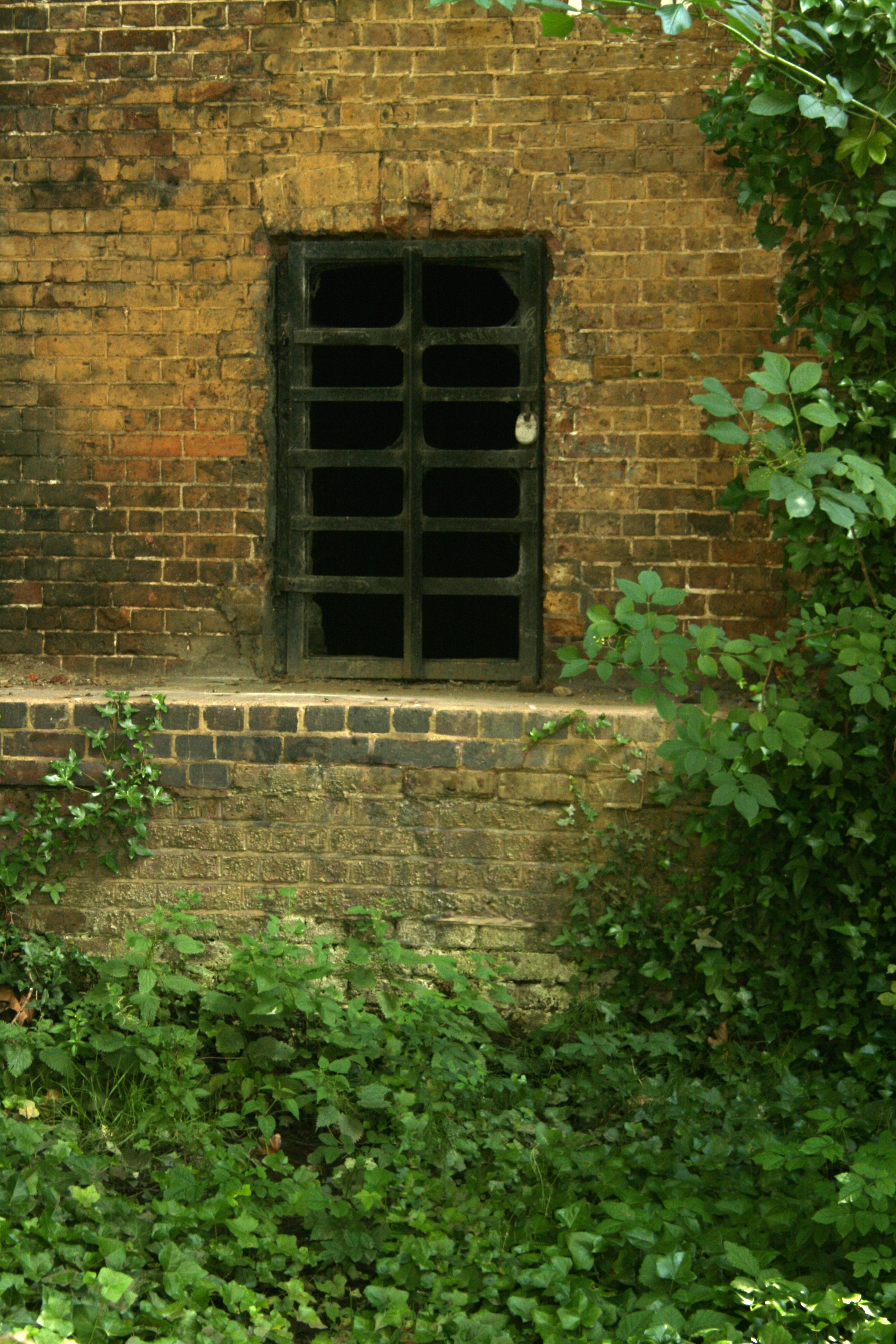 A bat cave in the Wharncliffe Viaduct in Hanwell, London W7. This forms part of the Brent Meadow nature reserve. It is one of four bat cave entrances (under legal protection) in the Viaduct and is situated in the the south-eastern end buttress pier.